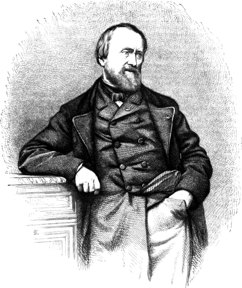 Drawing of Jean-Hippolyte Flandrin (1809-1864), French religious painter